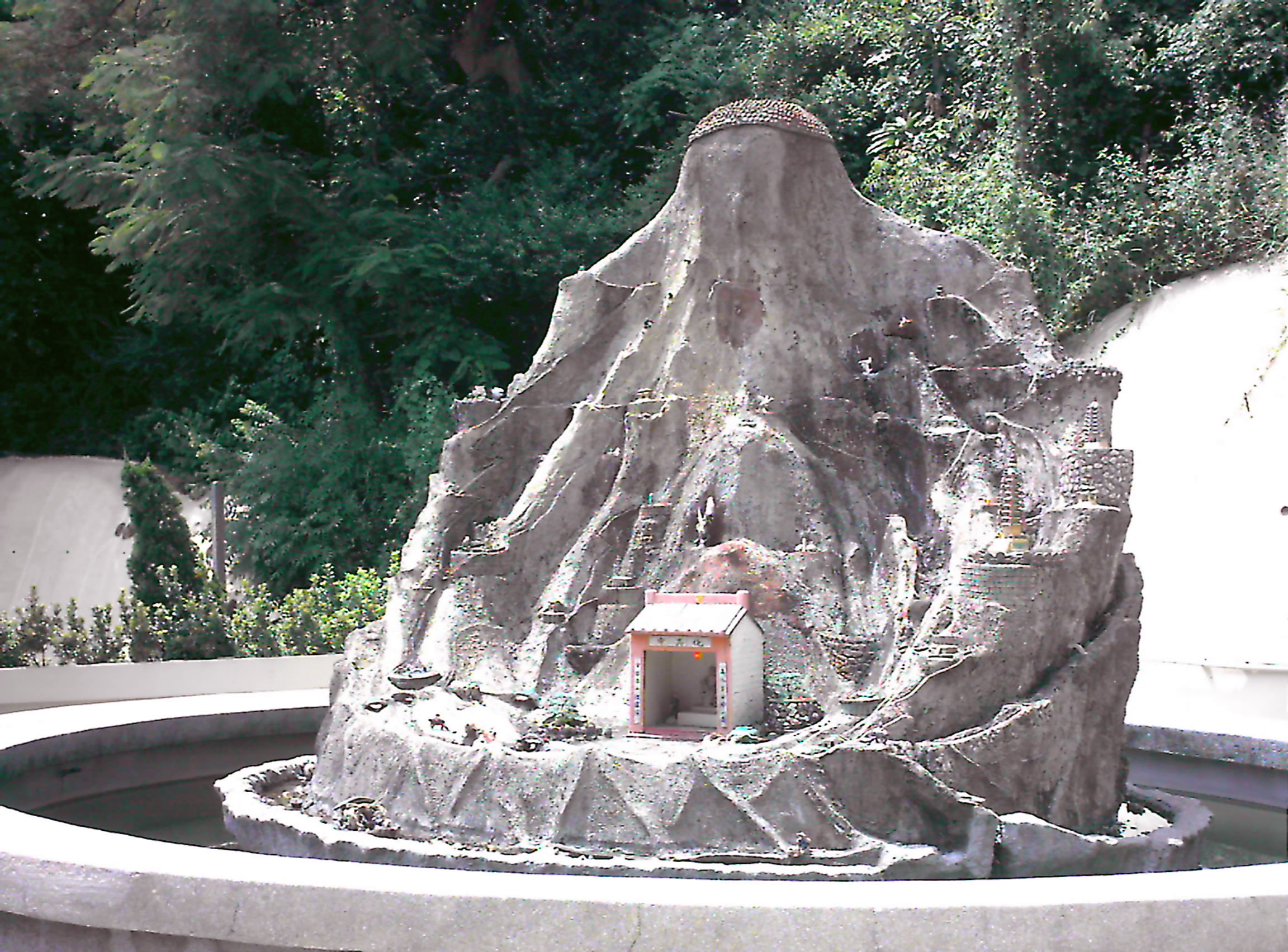 Huazhung Temple Sculpture, Hong Kong and Kowloon Fuk Tak Buddhist Association 中文（香港）: 港九福德念佛社，化真寺雕塑